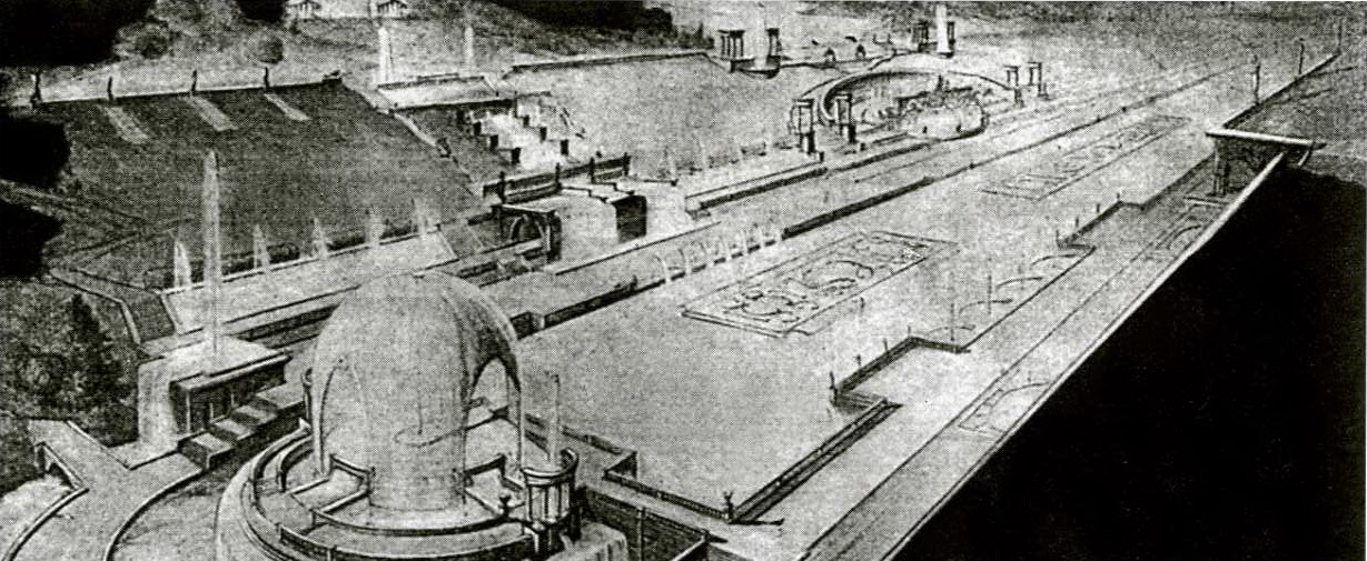 Korzhev M. Himki.